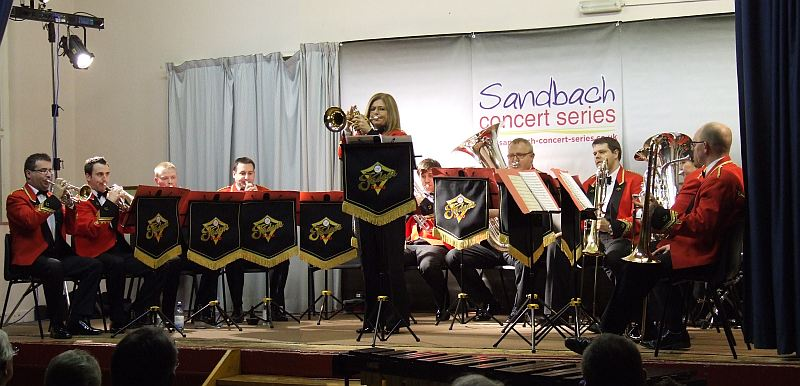 Foden's 12-piece Brass Band, about half the size of the full band, appearing at the Sandbach Concert Series on Wed 30 Nov 2011.[1]